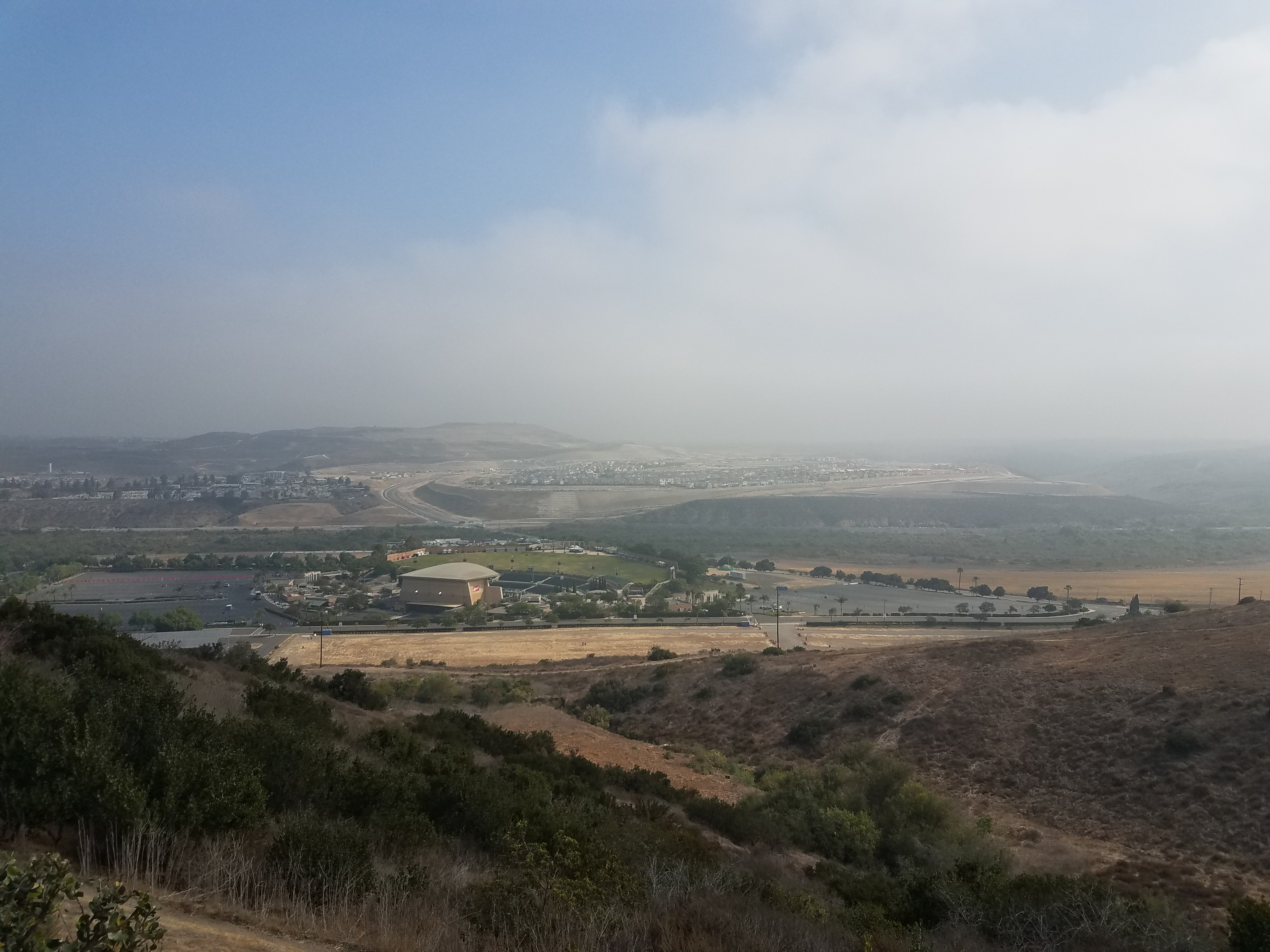 Mattress Firm Amphitheatre as seen from the south in the Ocean View Hills neighborhood of San Diego